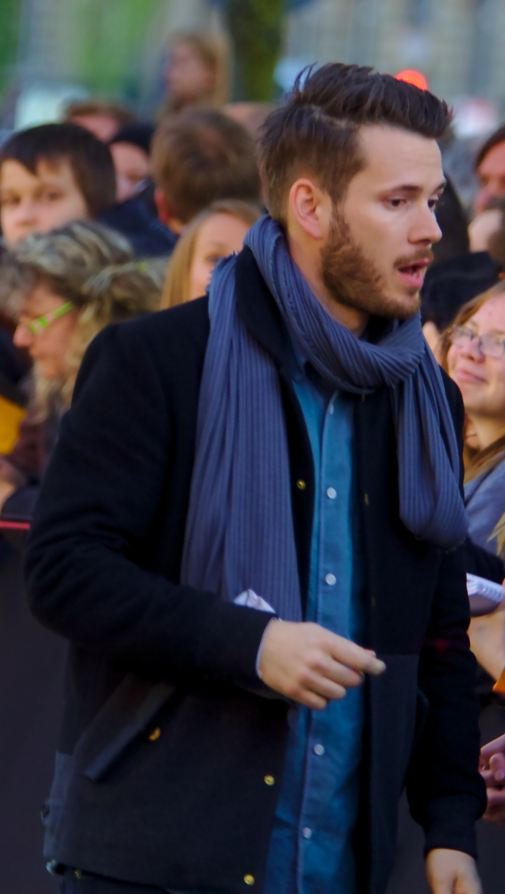 Filmpremiere "Zulu" in Hamburg, 5. Mai 2014